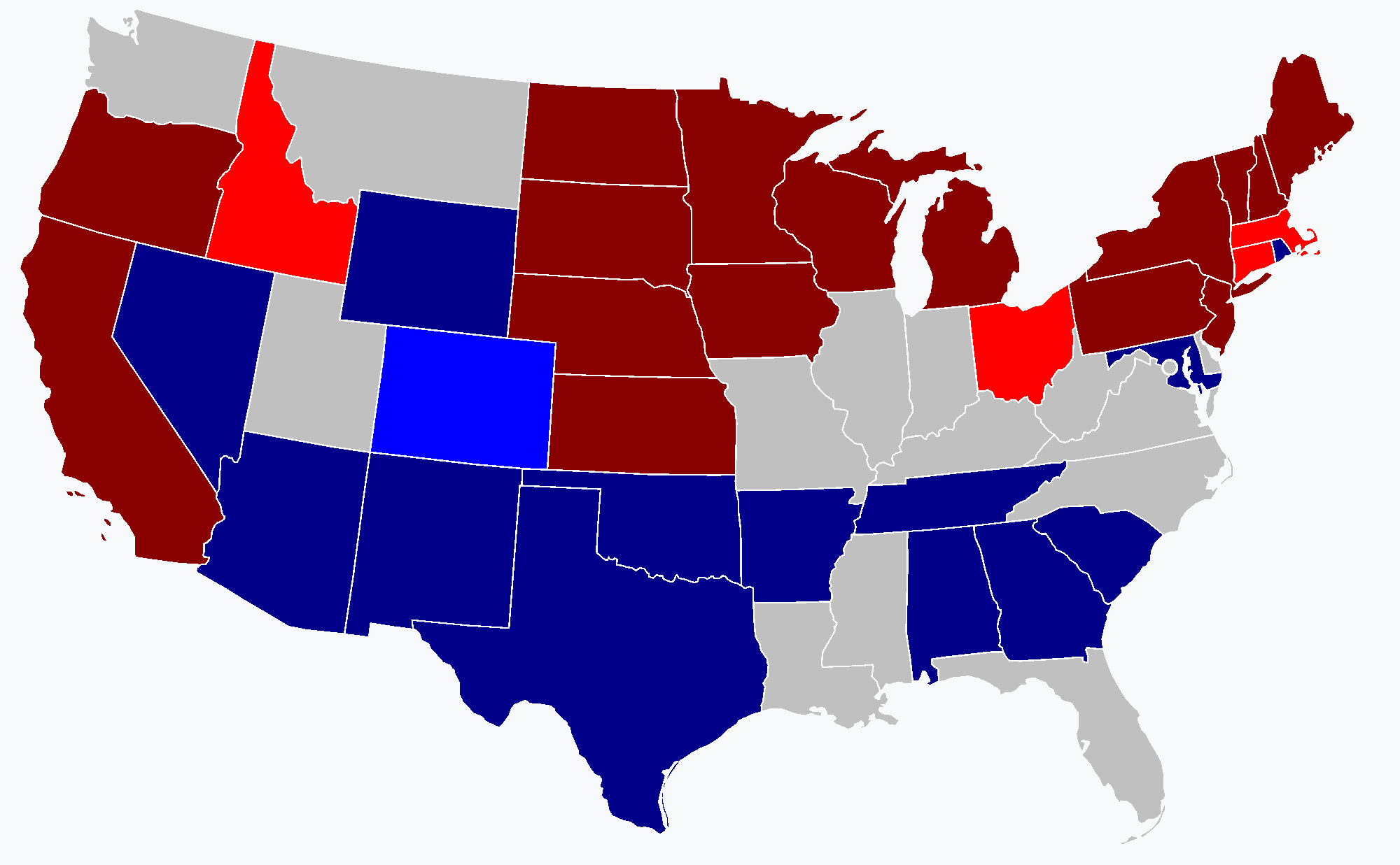 A map showing the results of the 1946 United States Gubernatorial elections